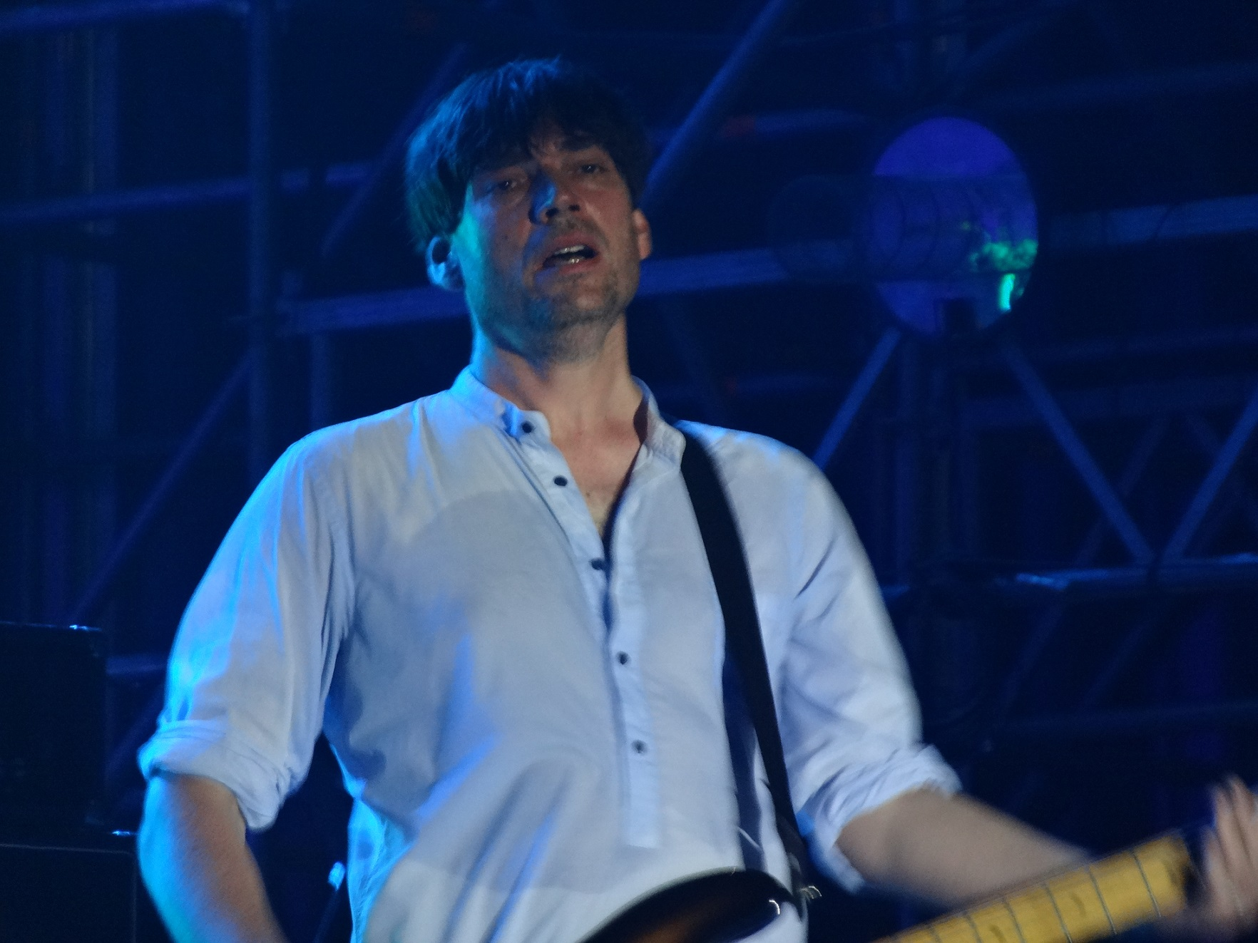 Blur 29.07.2013 in Rome